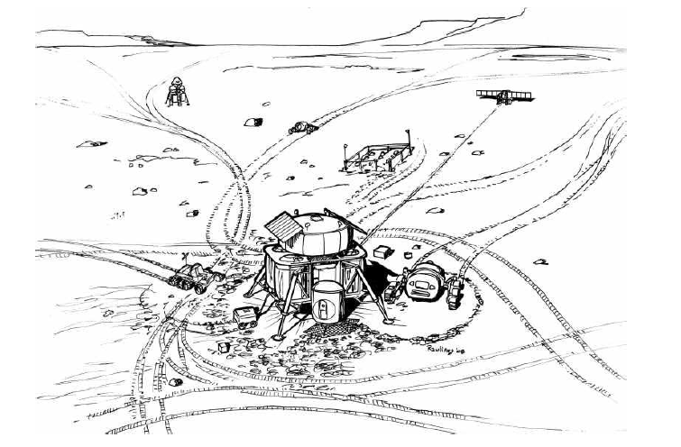 Mars mission “commuter” surface mission scenario Source : Design Reference Architecture 5.0 Annexe 2 (2014)